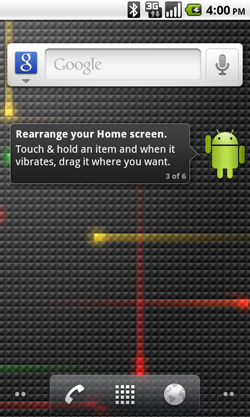 The screenshot of Android 2.2 Froyo